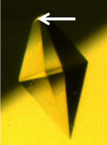 Thaumatin crystal grown in the Advanced Protein Crystallization Facility.